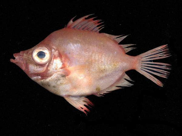 Capros aper photographed by Pierluigi Angioi.